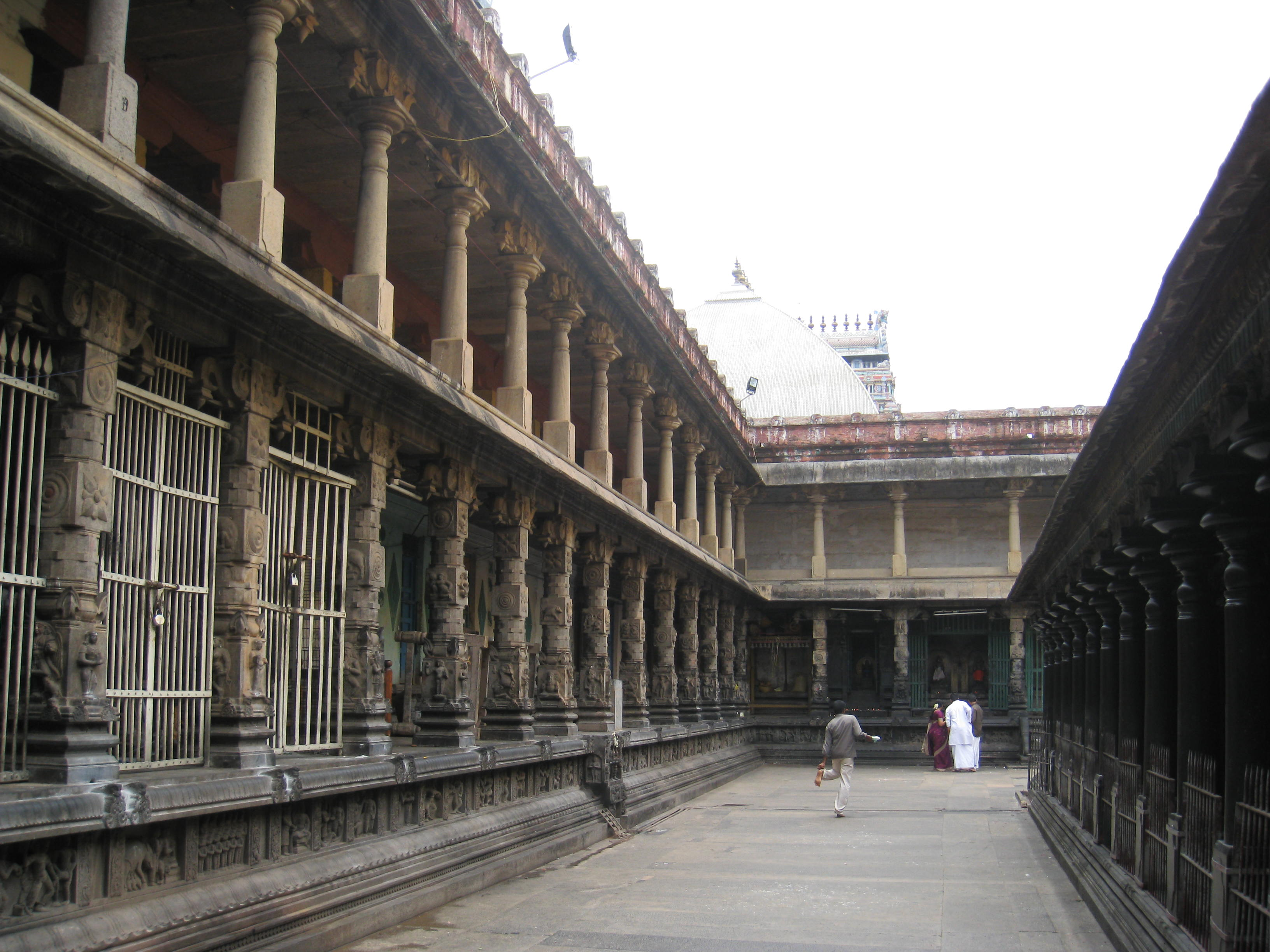 Courtyard, Nataraja Temple, Chidambaram